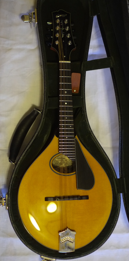 Collings MT2-O mandolin “Adirondack spruce top, full binding (top, back, neck, headstock, pickguard)”